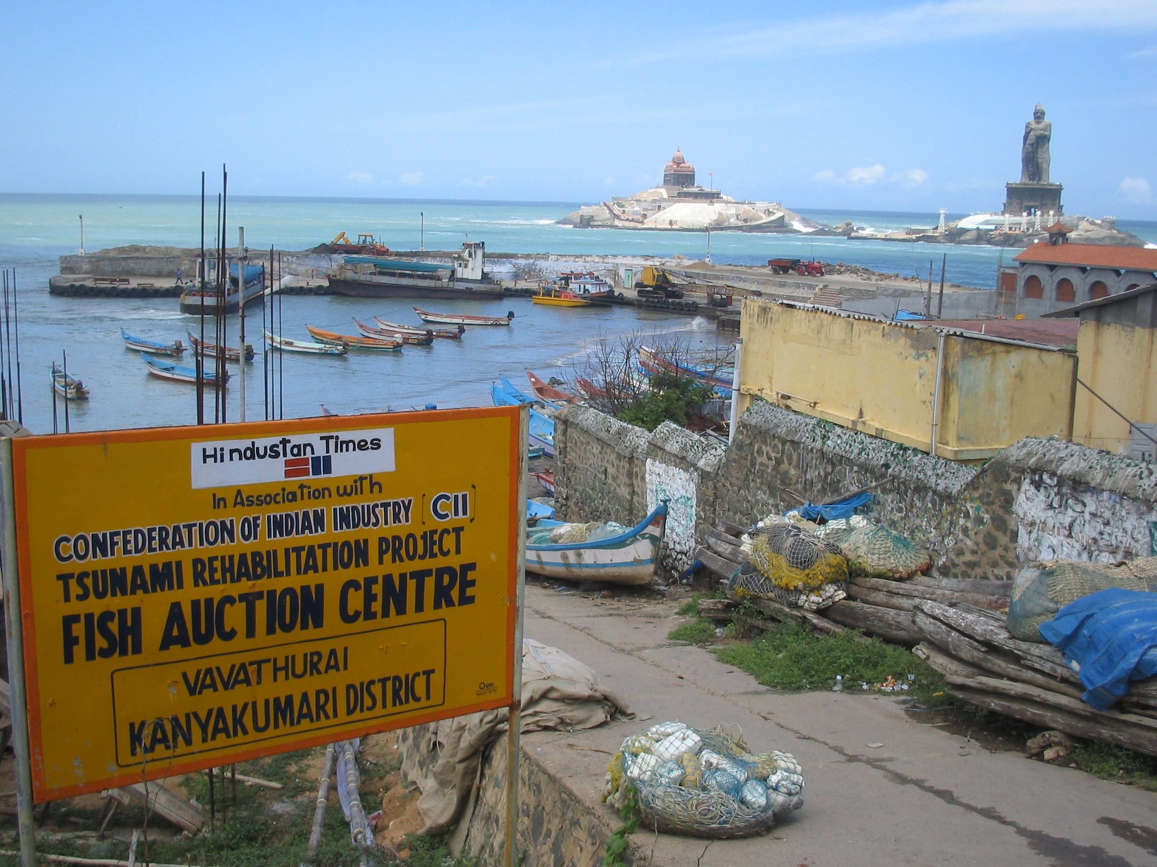 tsunami rehabilitation project, kanyakumari